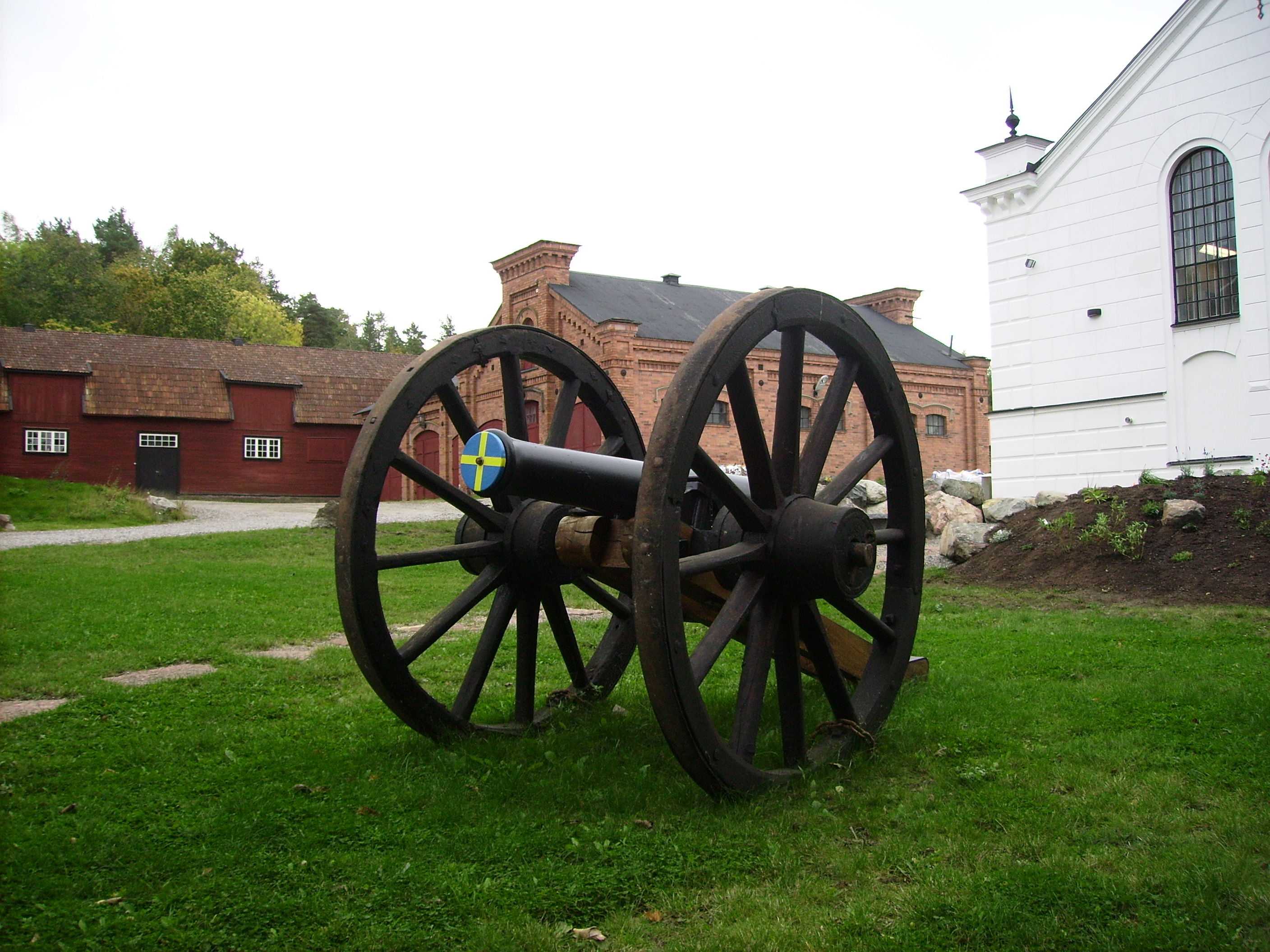 Picture of canon in Åkers Styckebruk